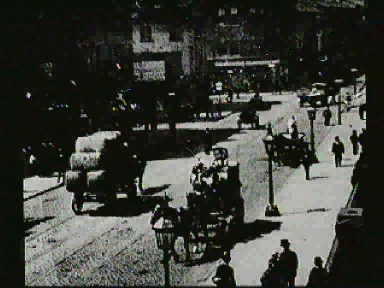 A screenshot from Louis Le Prince's pioneering film Traffic on Leeds Bridge, 1888, remastered by the National Museum of Photography, Film and Television, Bradford.